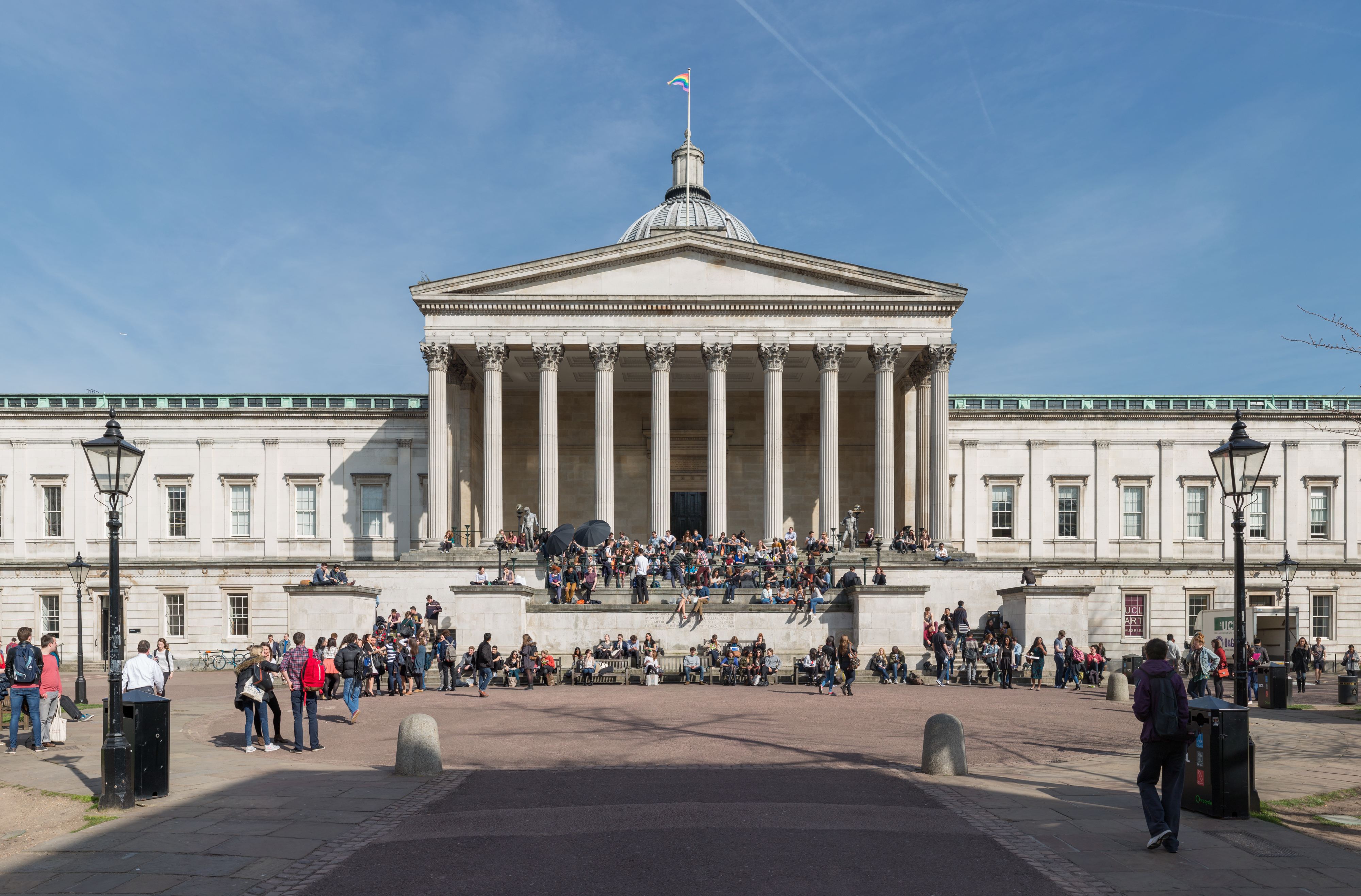 The Wilkins Building, University College London, Gower Street, Bloomsbury, London, England